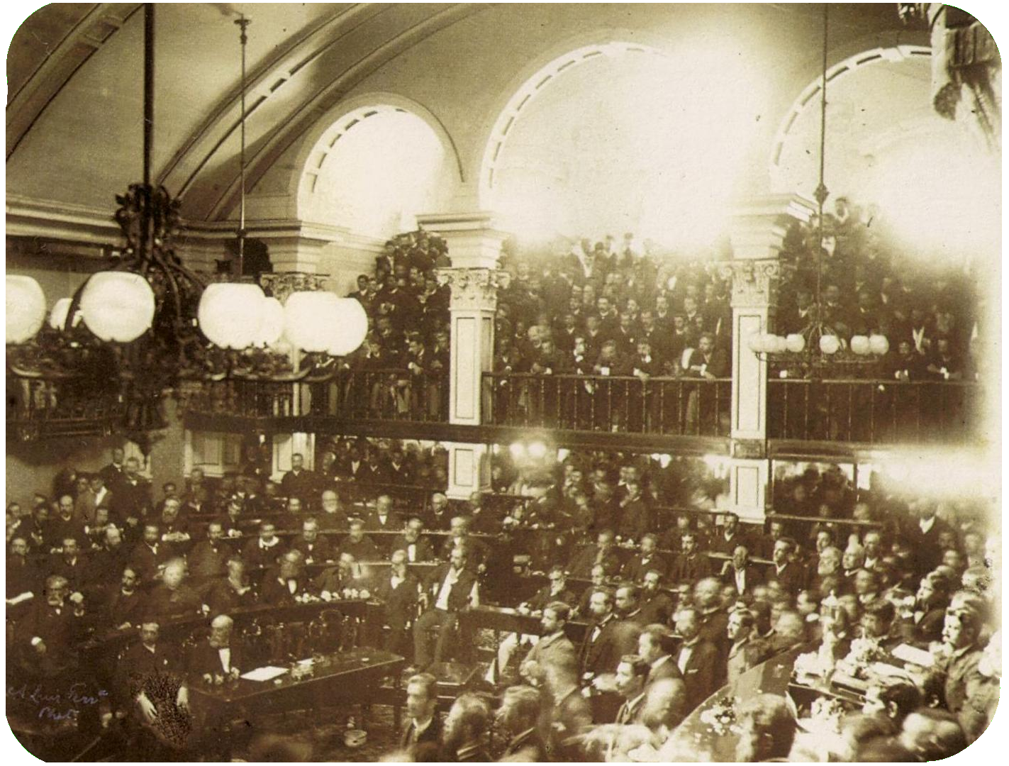 The Brazilian Senate passing the bill that abolished slavery in the country, 1888. A crowd is gathered in the up floor and in the background at the ground floor watching it.